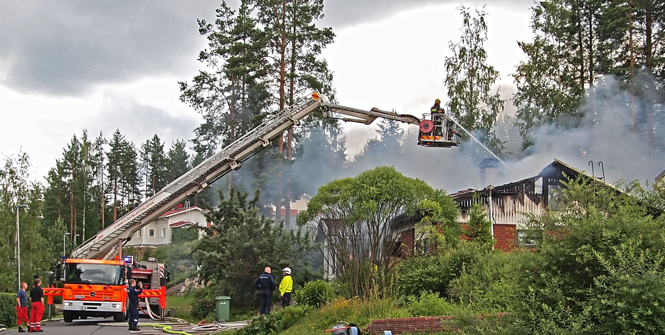 Firefighters extinguishing a house fire in Vaajakoski district, Jyväskylä.